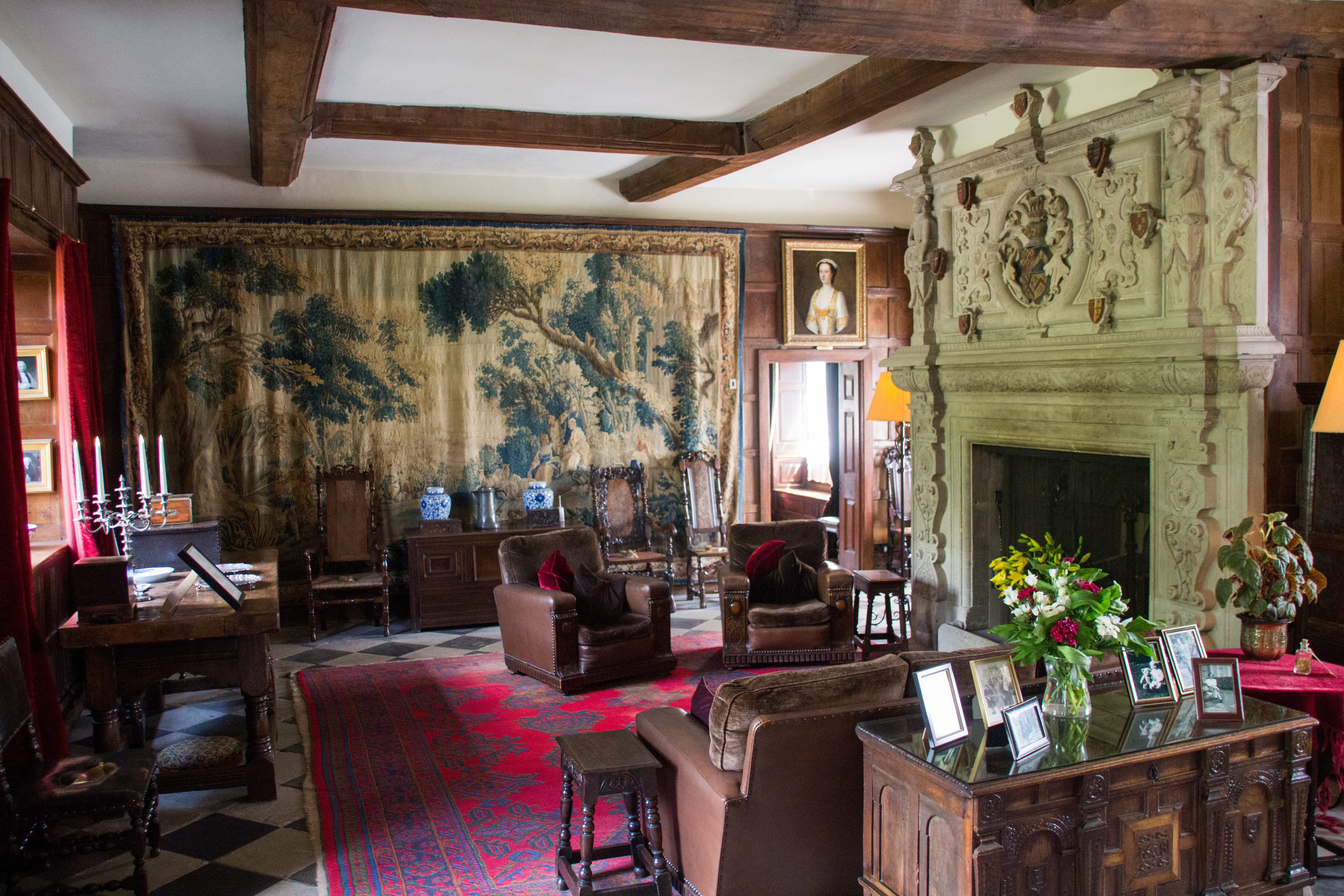 Baddesley Clinton, a National Trust property in Warwickshire, UK.